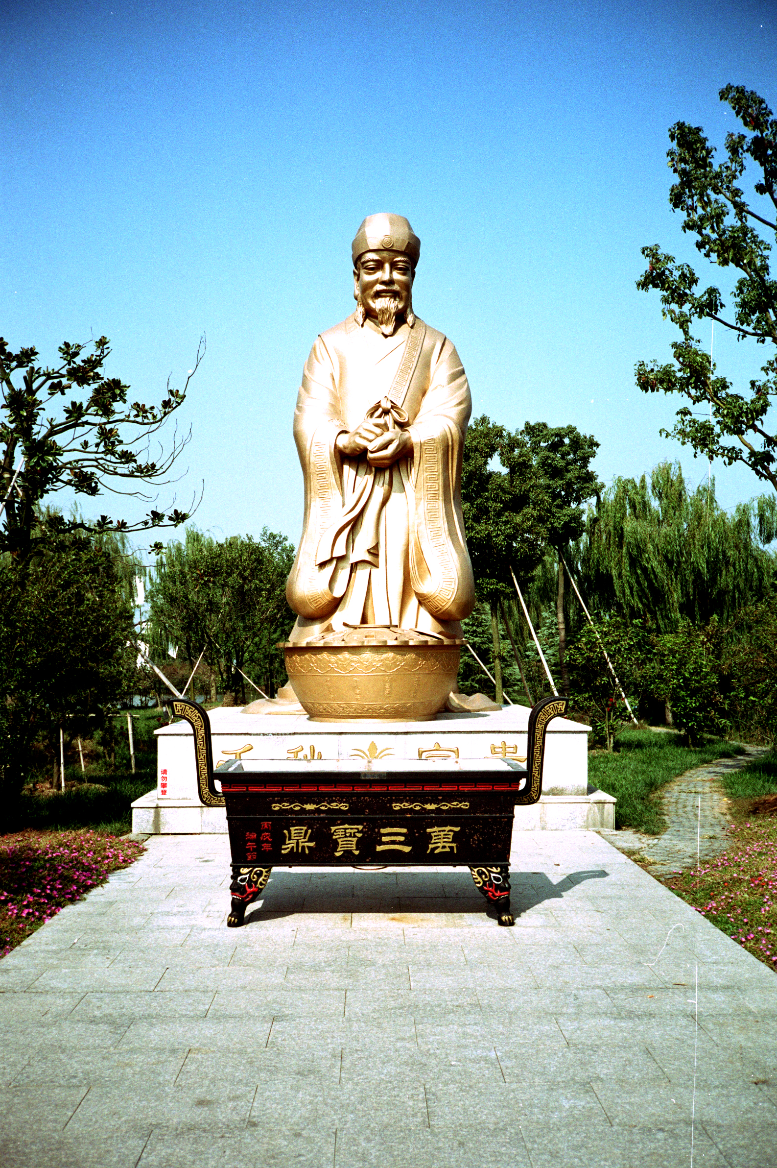 Statue of Shen Wansan, a rich merchant of Zhouzhuang